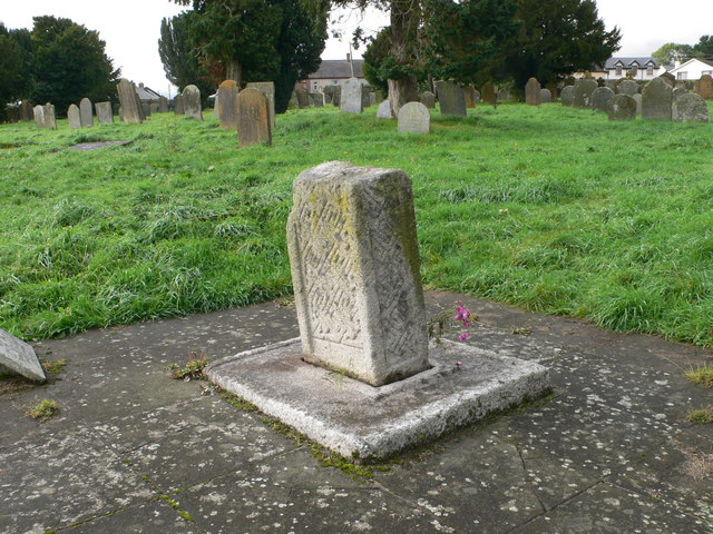 Gravestone at Ferns Cathedral This is said to be the gravestone of Diarmaid MacMurcada, King of Leinster. it was he who with invited the Anglo-Normans to Ireland in 1169.